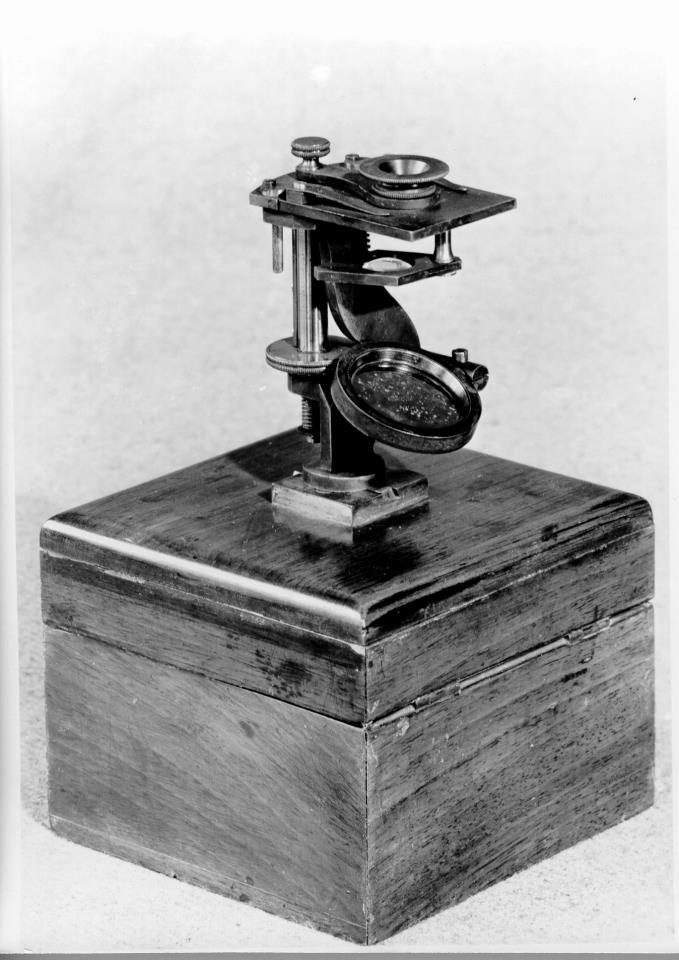 September 1847: With skill, experience, vigor, and ideas of his own, Carl Zeiss starts making microscopes on his new premises at Wagnergasse 32 in Jena. These are simple microscopes, consisting of one lens only and intended mainly for dissecting work. During the first year, Zeiss sells as many as 23 of them, an indication that they do well in comparison to other makes. Nevertheless, they undergo many improvements during the following years. Images donated as part of a GLAM collaboration with Carl Zeiss Microscopy - please contact Andy Mabbett for details.